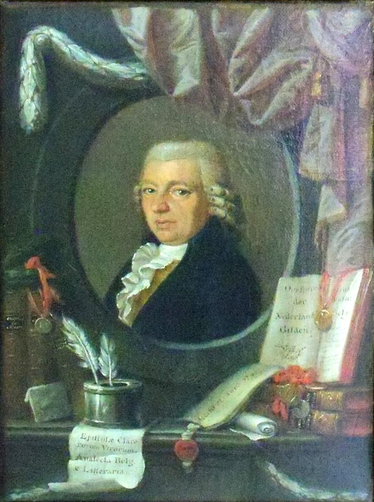 Portret van Willem Frans Gommaer Verhoeven (1738-1809), eerste bestendig-secretaris der Tekenakademie van Mechelen